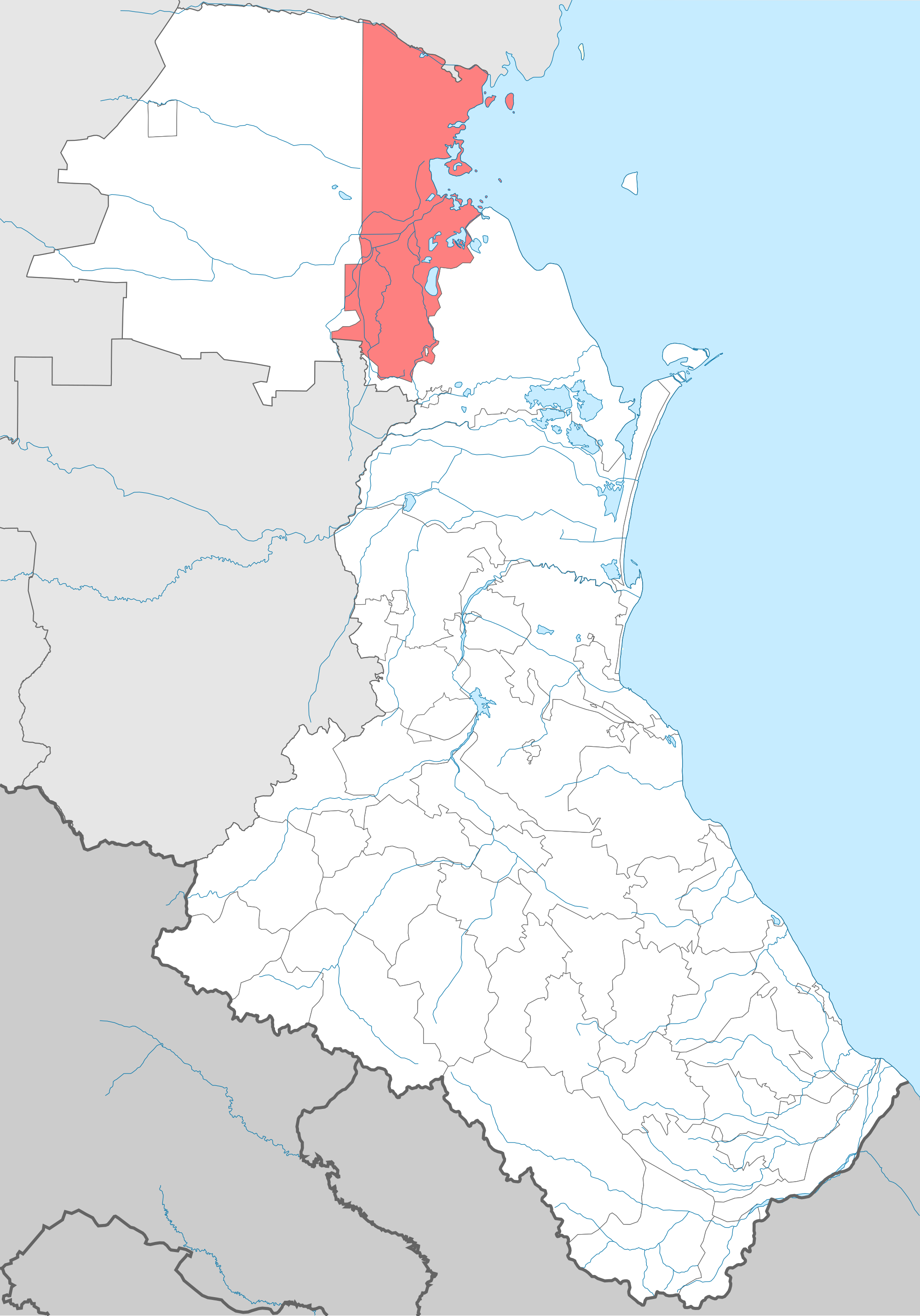 Tarumovsky district. Locator Map of Dagestan (Russia)